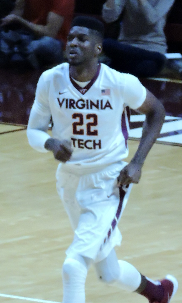 Johnny Hamilton hustles up the court for the Hokies